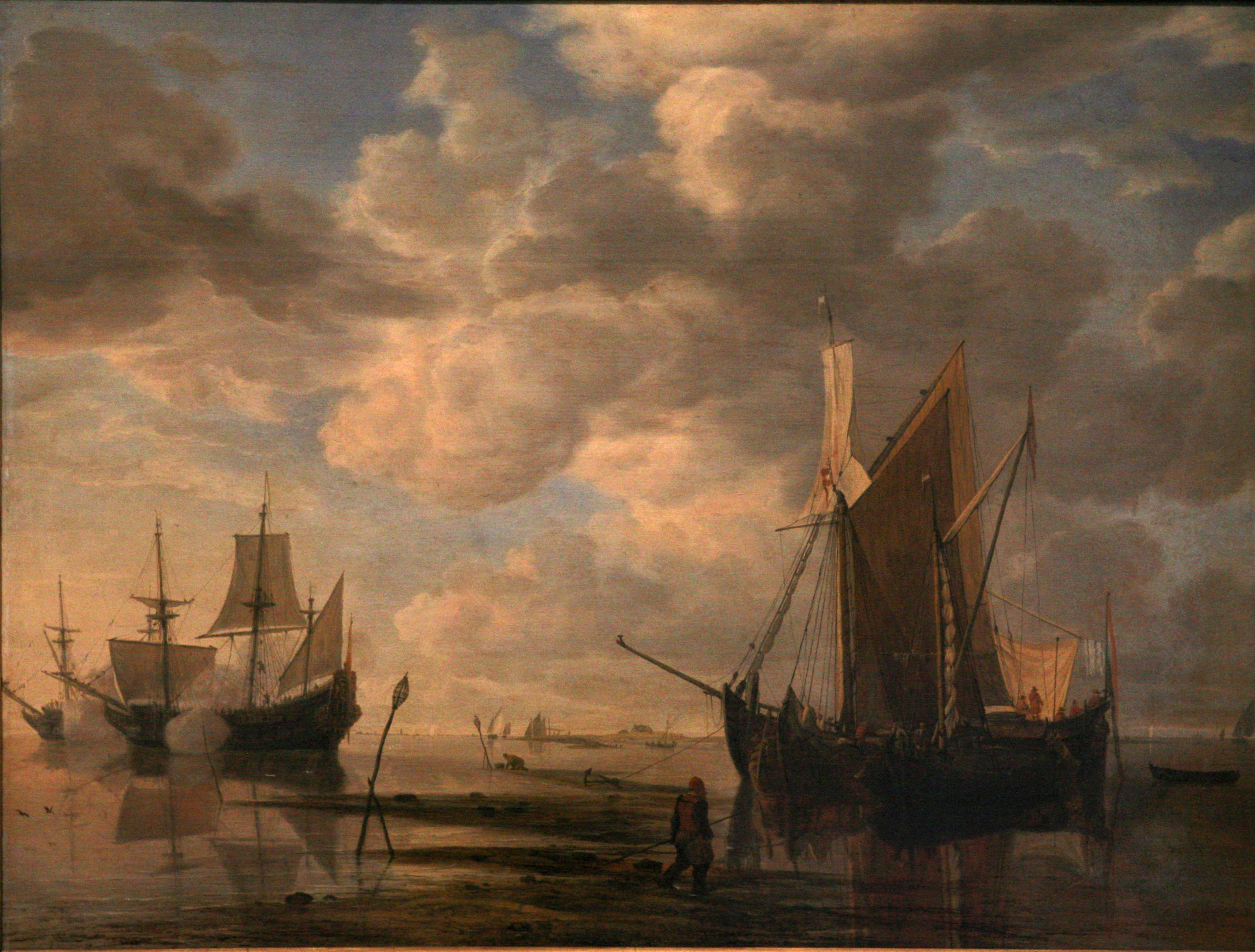 Low tide